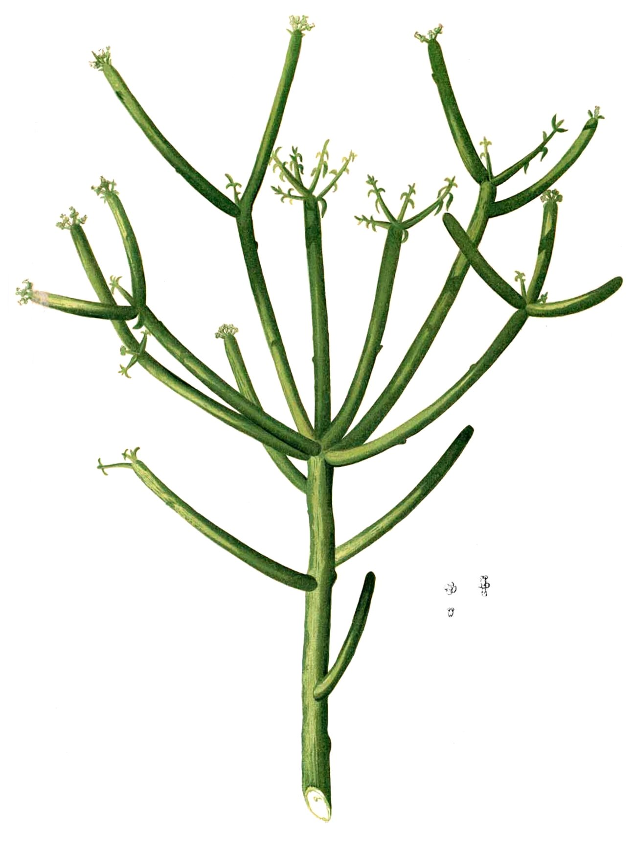 Plate from book